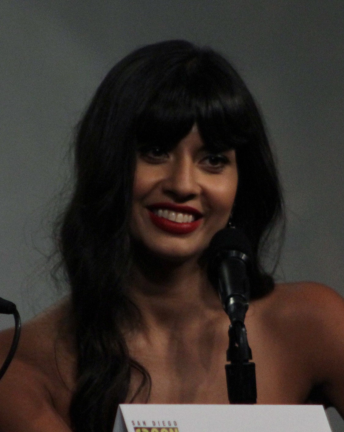 Cast and crew of NBC's 'The Good Place' discuss the show in the Indigo Ballroom at the San Diego Hilton Bayfront Hotel during San Diego Comic Con on July 21, 2018. Taken by Dominique Redfearn.